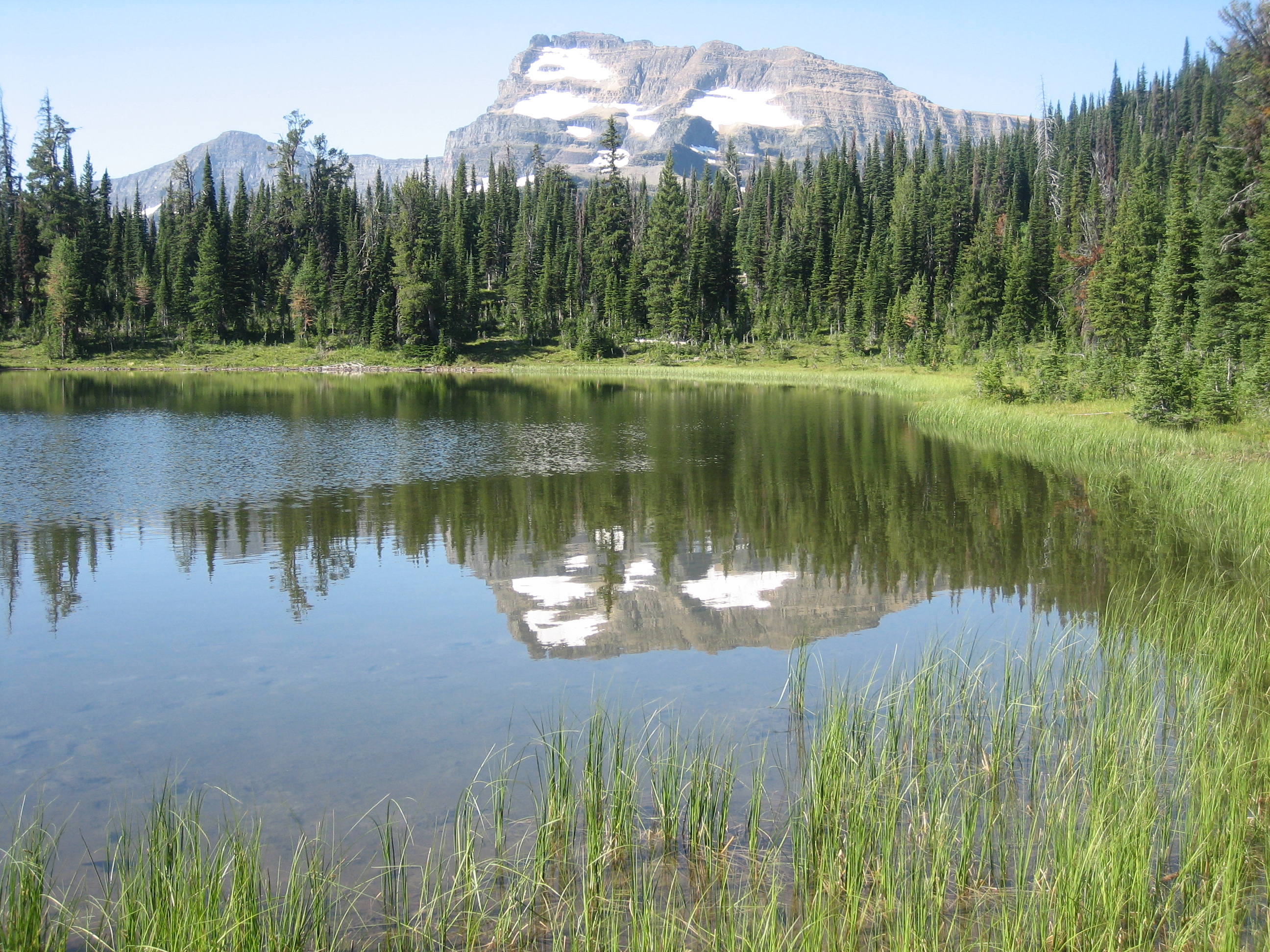 Summit Lake, Waterton Lakes National Park took picture myself